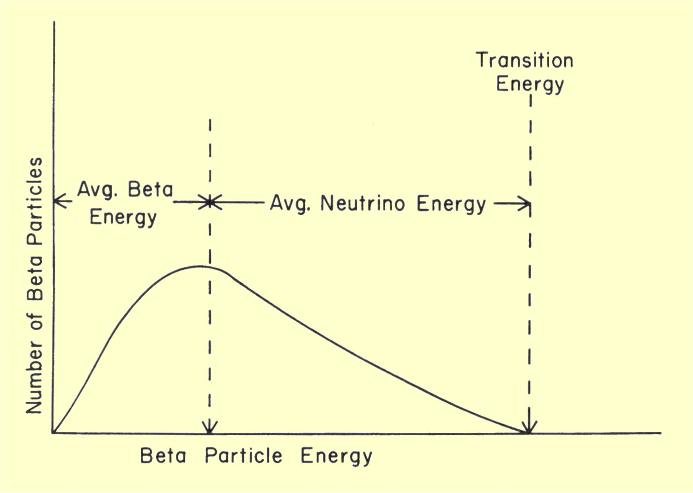 Beta emission spectrum.